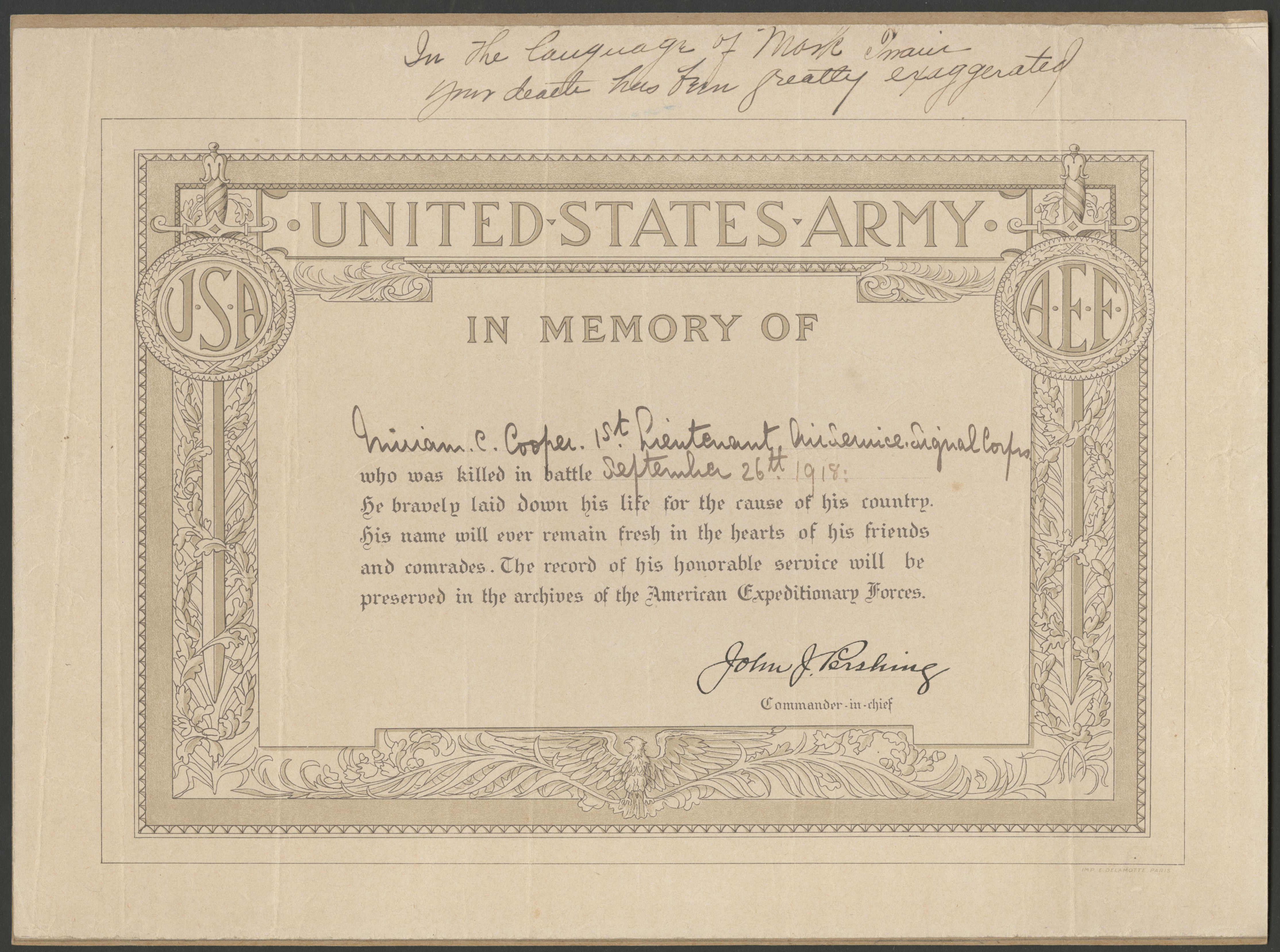 Certificate of Death in Action, issued by the American Expeditionary Forces when he was presumed dead in 1918.